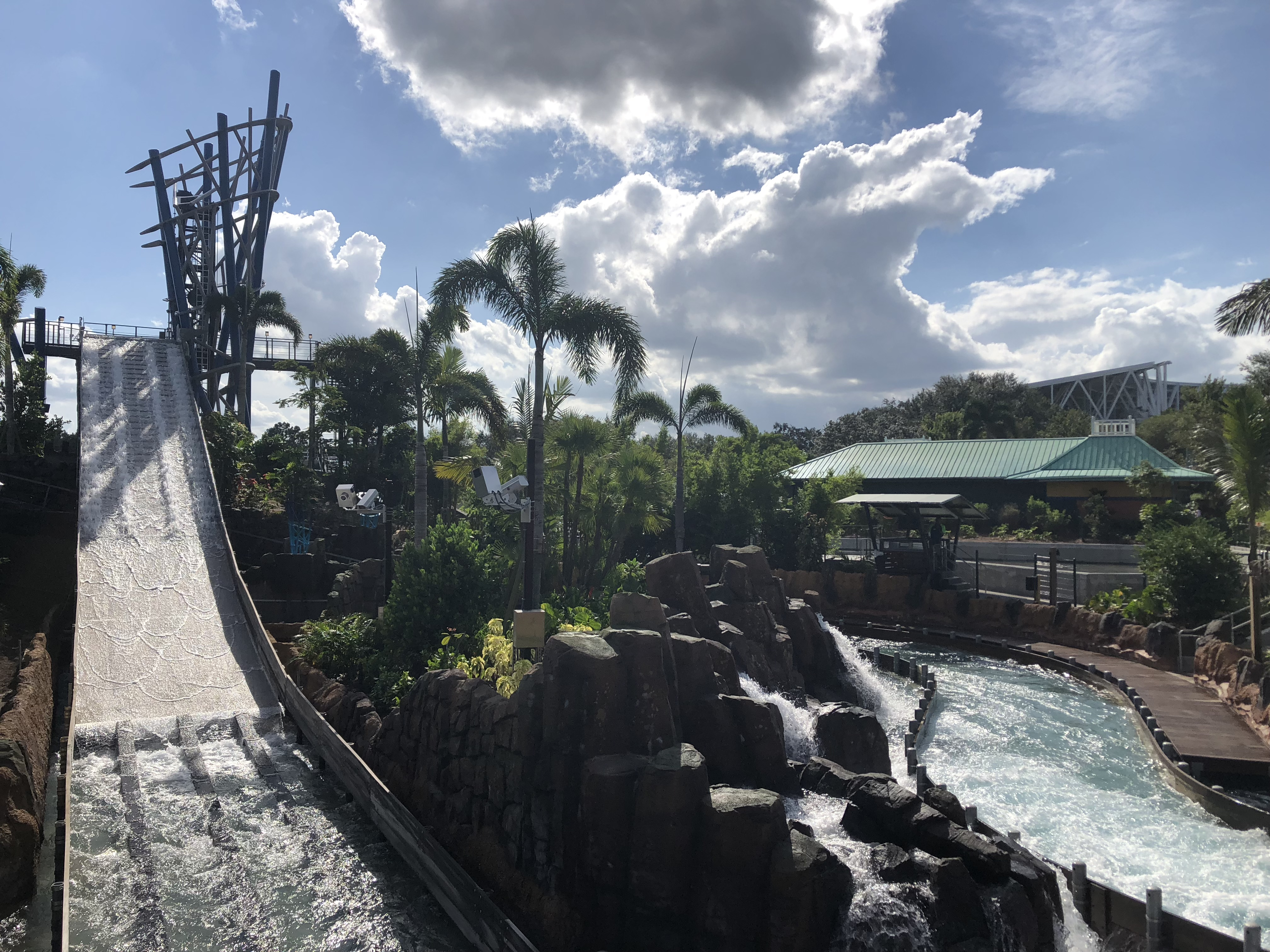 Look of drop of water flume ride, as well as part of the course.